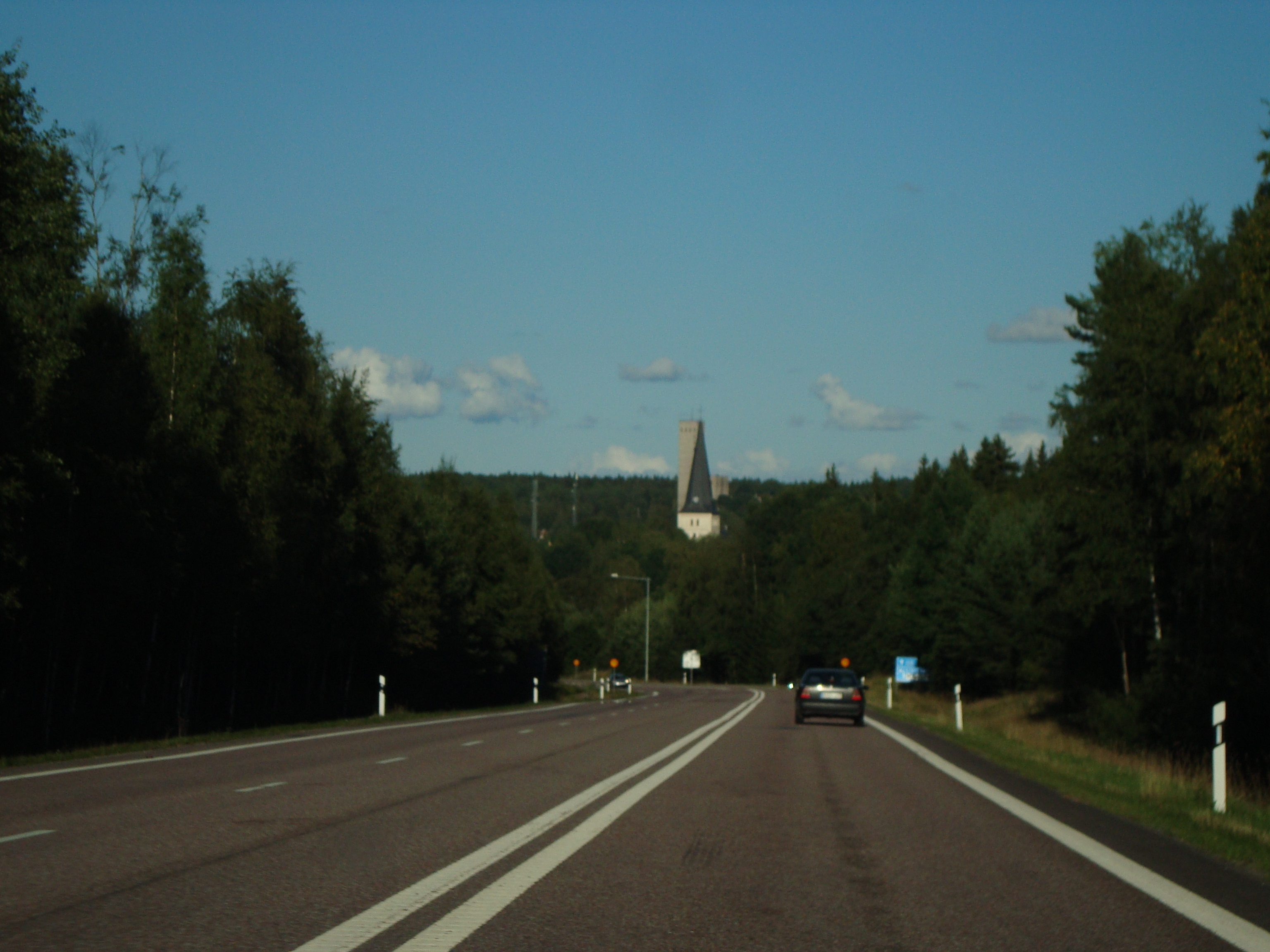 National road 68 at Norberg, Sweden. Norberg church and the old mine tower Mimer in the background.